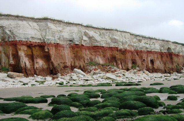 Carrstone